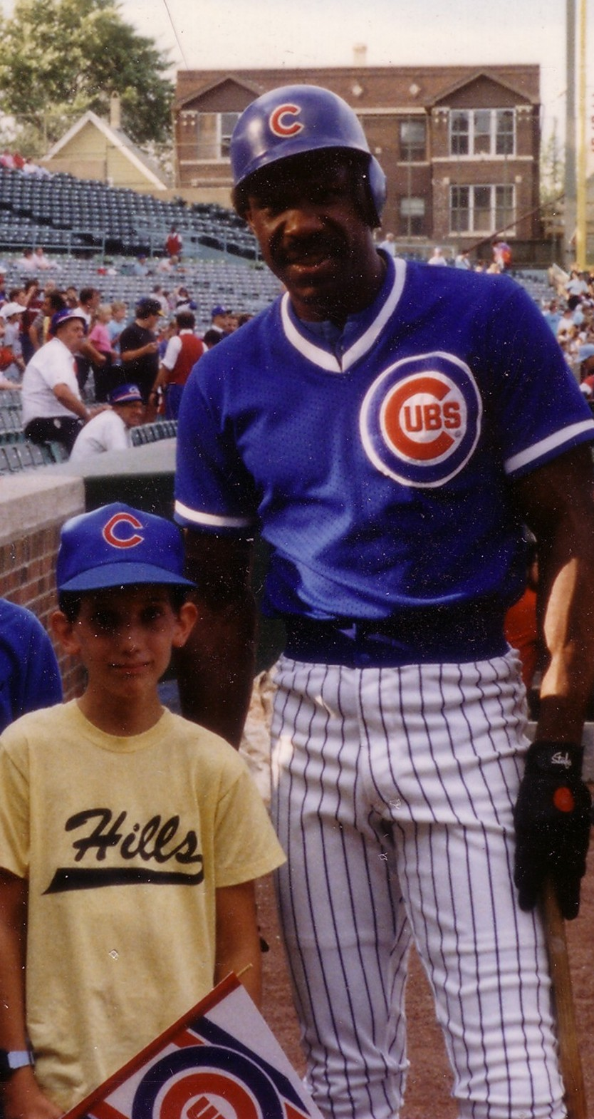 Sacoo, family photo taken in Aug. 23, 1988 at Wrigley Field in Chicago 01:50, 9 November 2007 . . Sacoo . . 834×1,570 (301 KB)